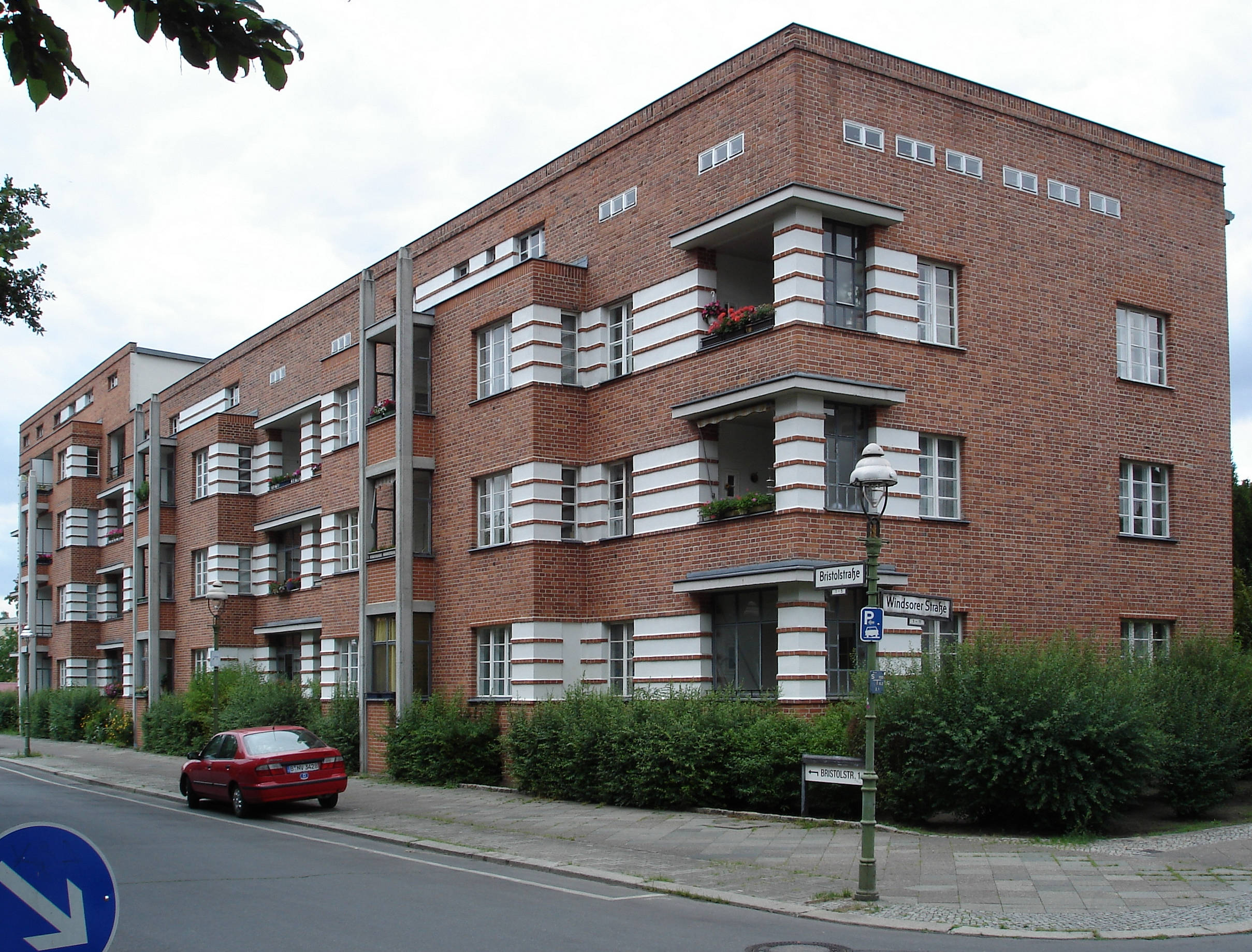 Schillerpark Housing Estate in Berlin-Wedding; view of the buildings Bristolstraße 5, 3, and 1 from Bristolstraße at the corner of Windsorer Straße